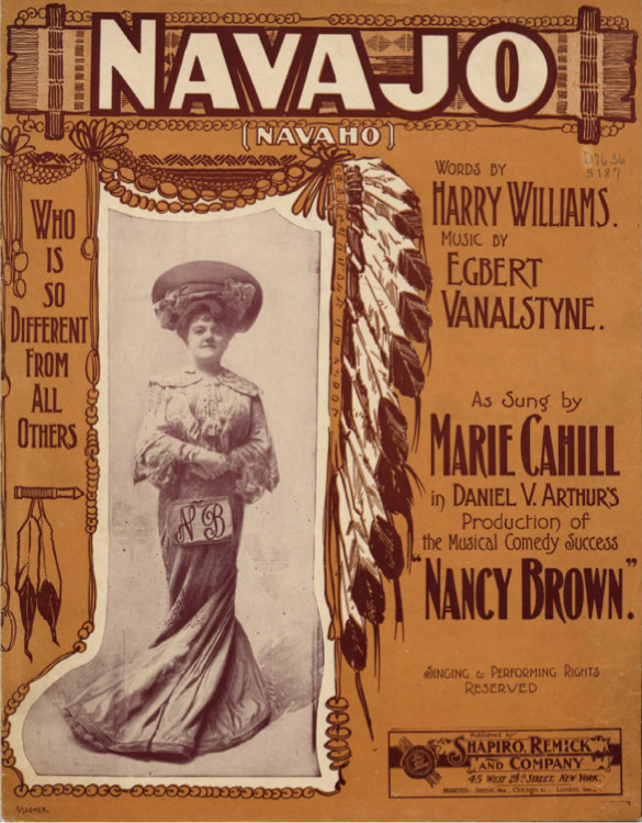 Image of cover of "Navajo" sheet music by composer Egbert Van Alstyne.